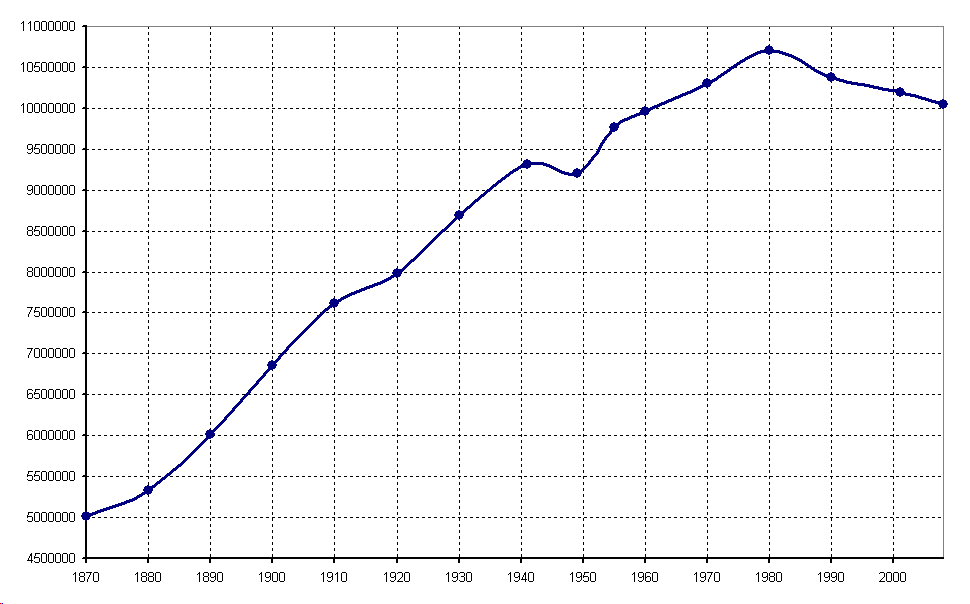 Hungary's population (1870-2008). Present-day territory.